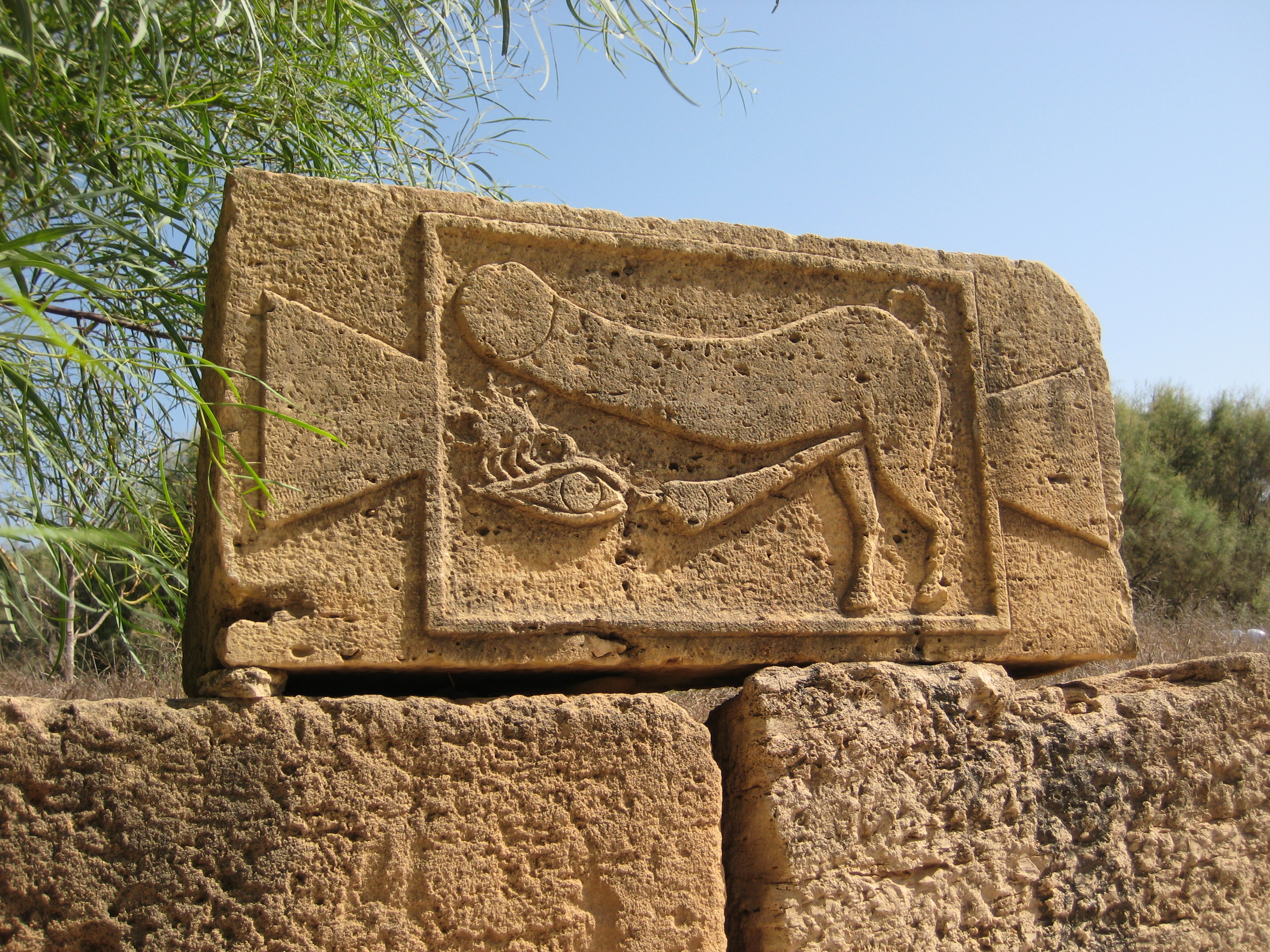 Bas-relief of fascinus or fascinum (amulet for protecting of "Evil eye"in Leptis Magna, 2nd century A.D. (Libya)